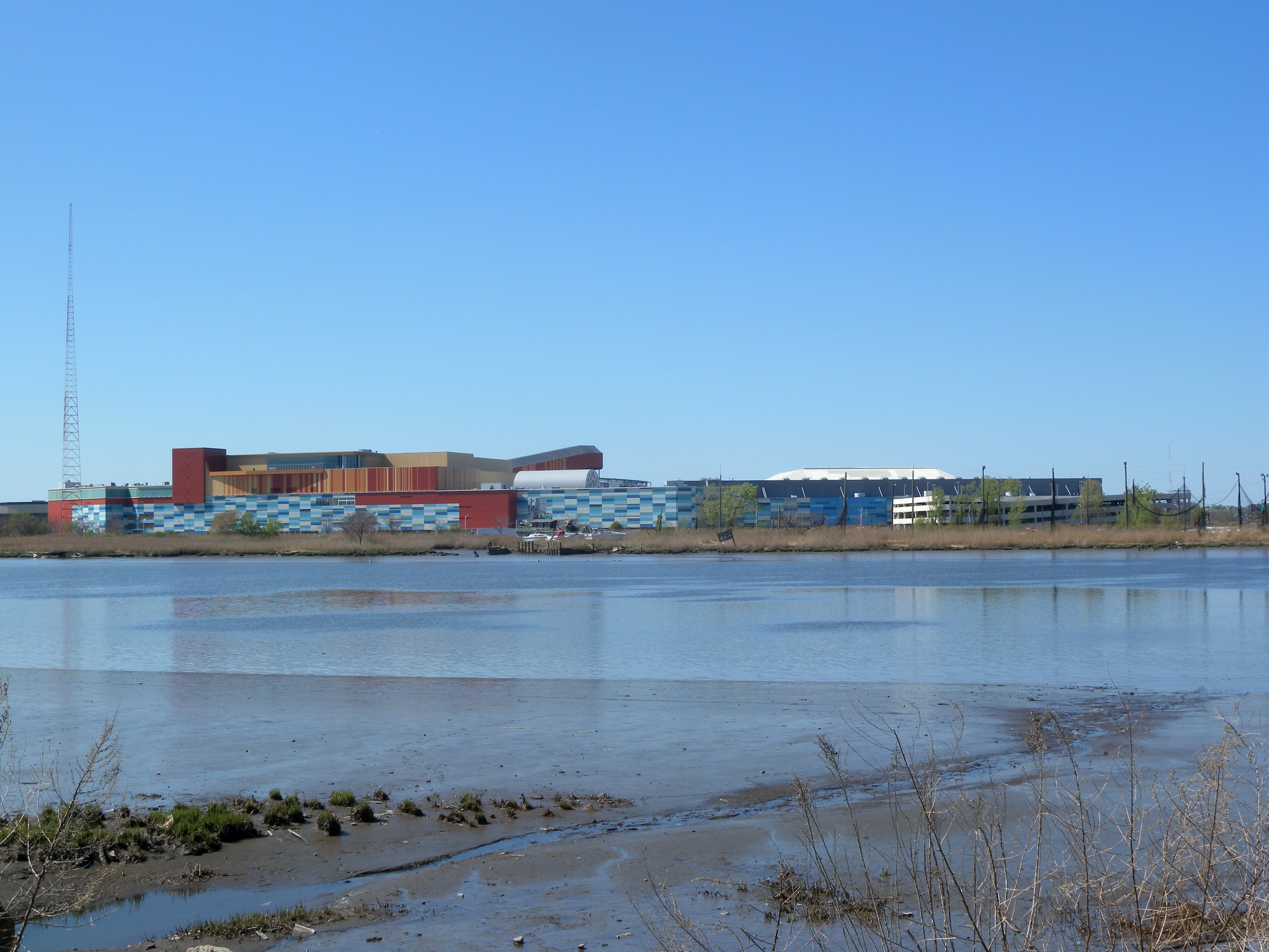 Looking northwest across the river from Trolley Park on a sunny midday.